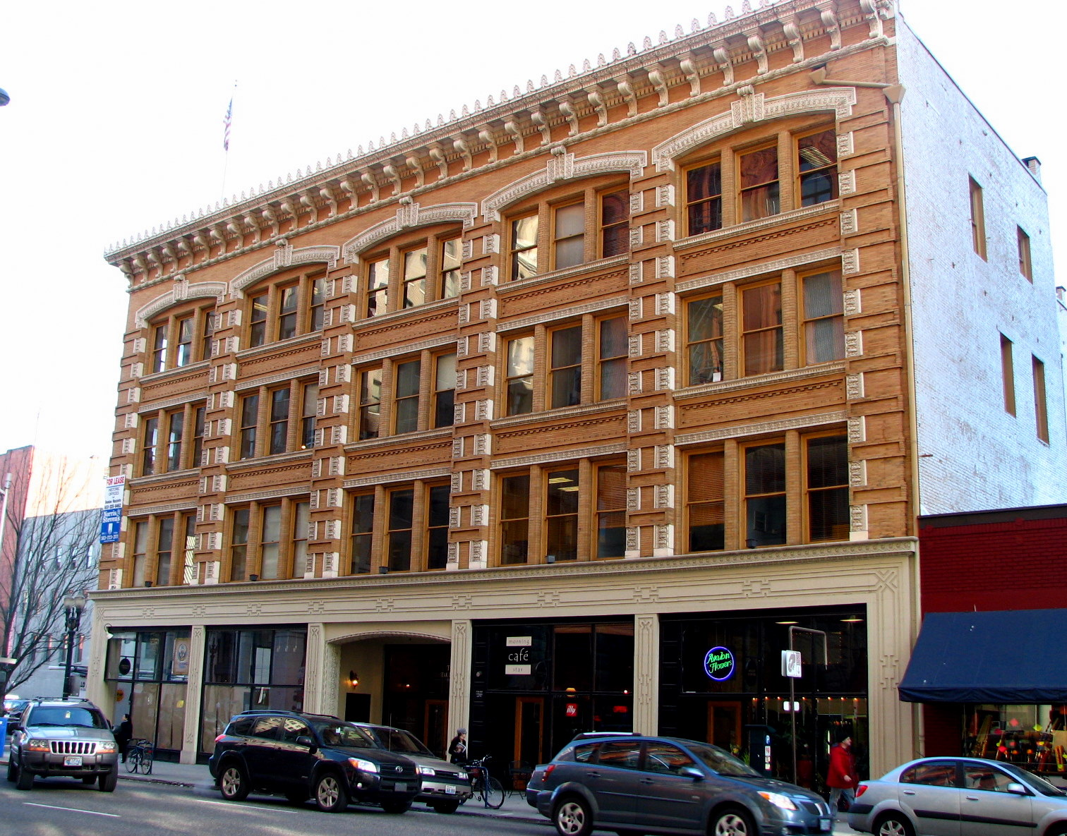 The historic Postal Building (built 1900), located at 502-516 Southwest 3rd Avenue in Portland, Oregon, United States, is listed on the US National Register of Historic Places (NRHP).